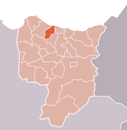 Bni marghnine